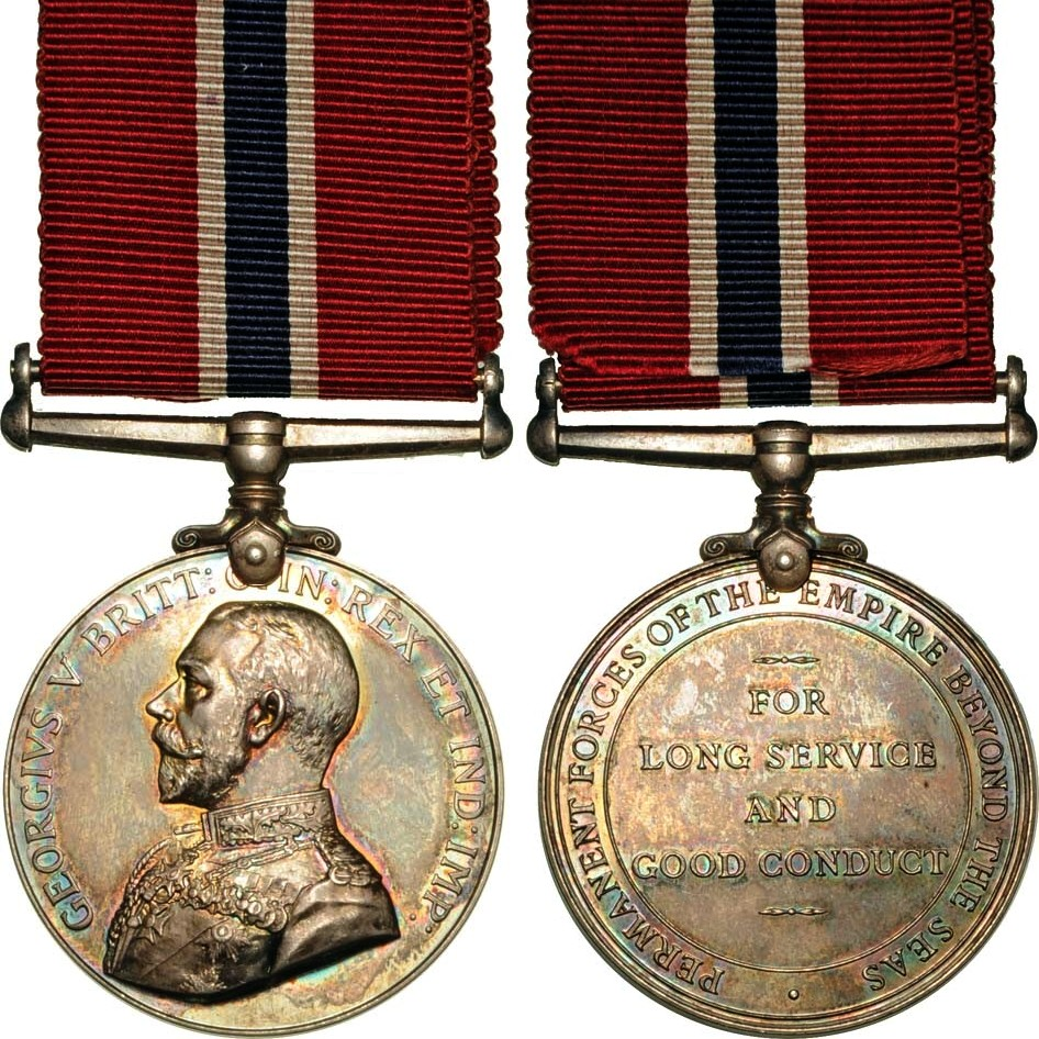 The Permanent Forces of the Empire Beyond the Seas Medal for long service and good conduct. The medal was established in 1910 and superseded the individual Army Long Service and Good Conduct Medals that had been awarded since 1894 by the various Dominions and Colonies, such as Australia, Canada, Cape of Good Hope, India, Natal and New Zealand.